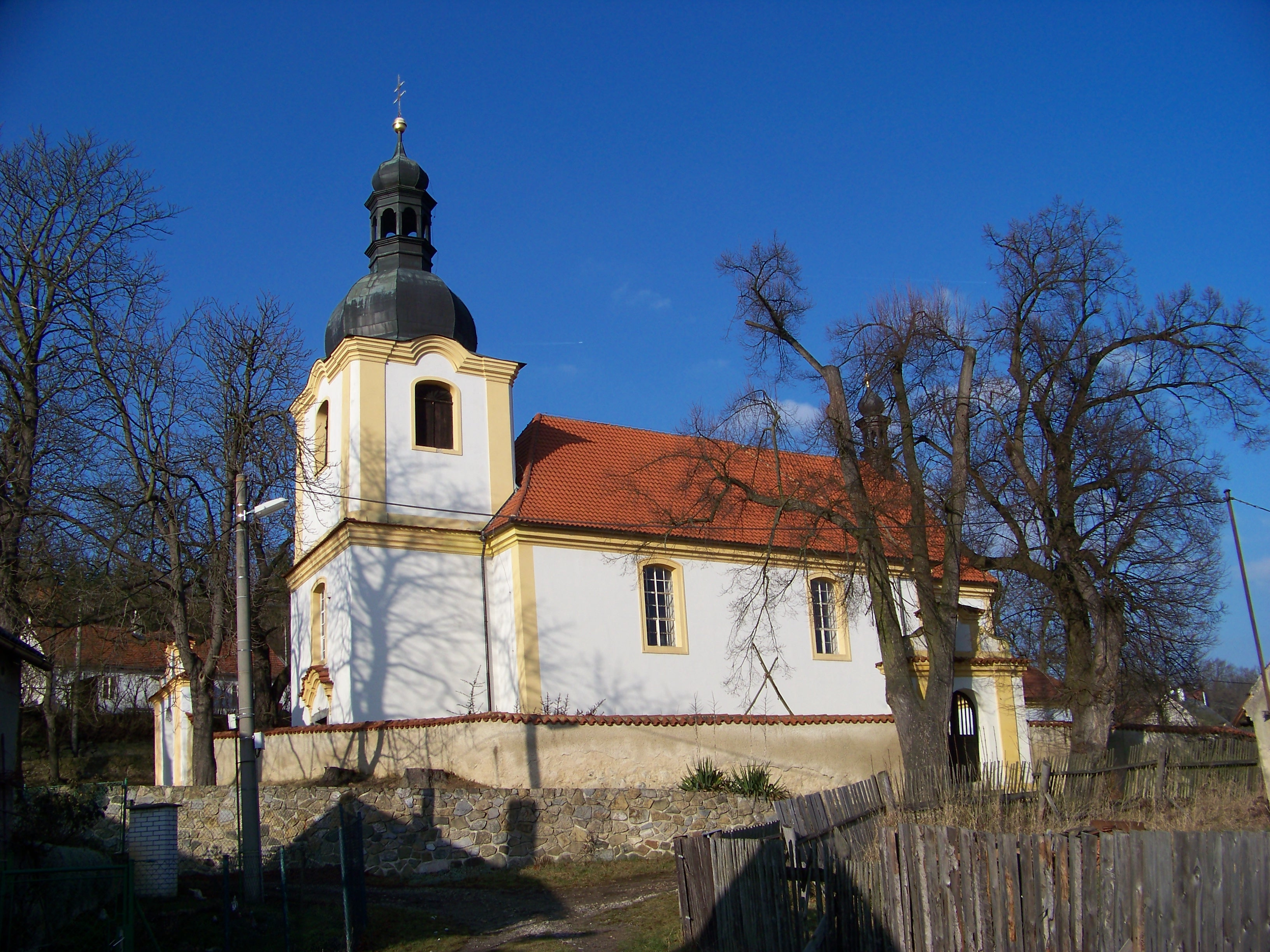 Všeradice, Beroun District, Central Bohemian Region, Czech Republic. Church of Saint Bartholomew.